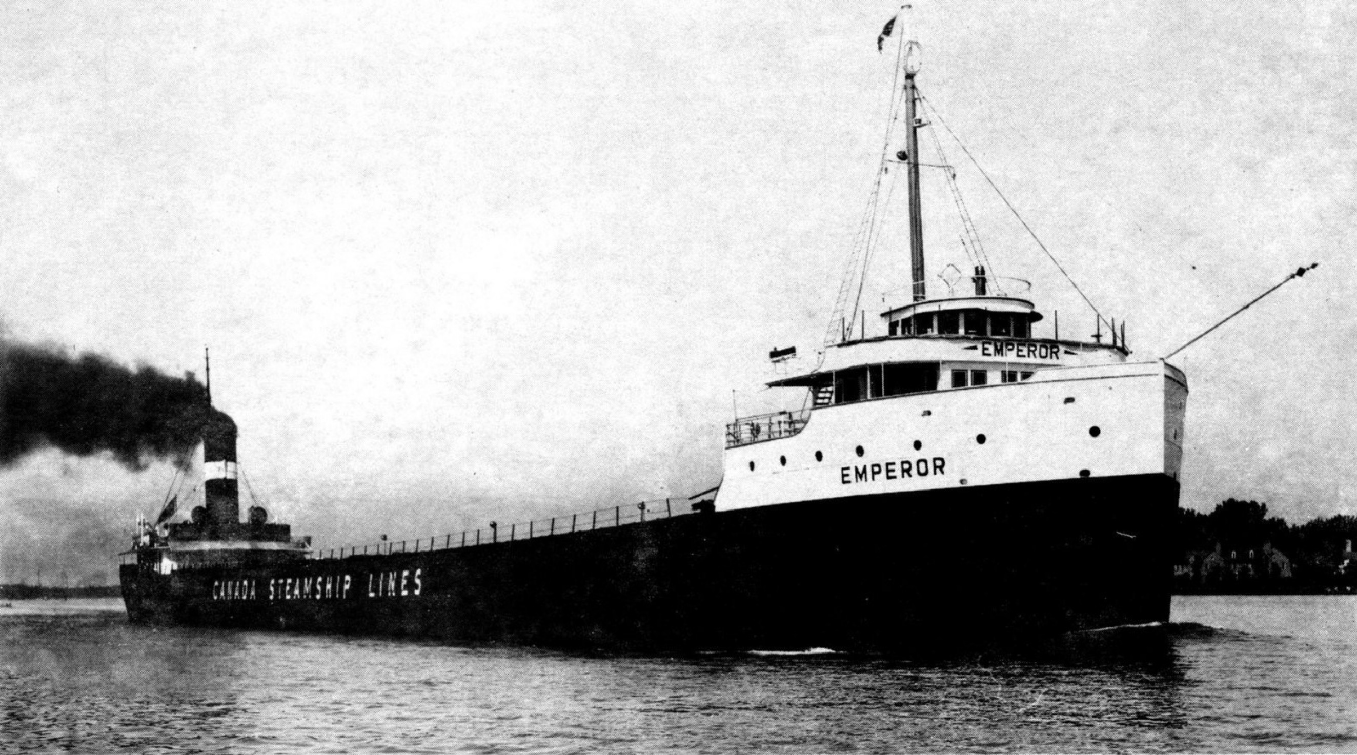 The steamer Emperor downbound in the St. Marys River